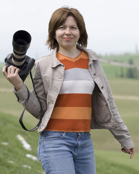 Category:Kyrgyz journalists